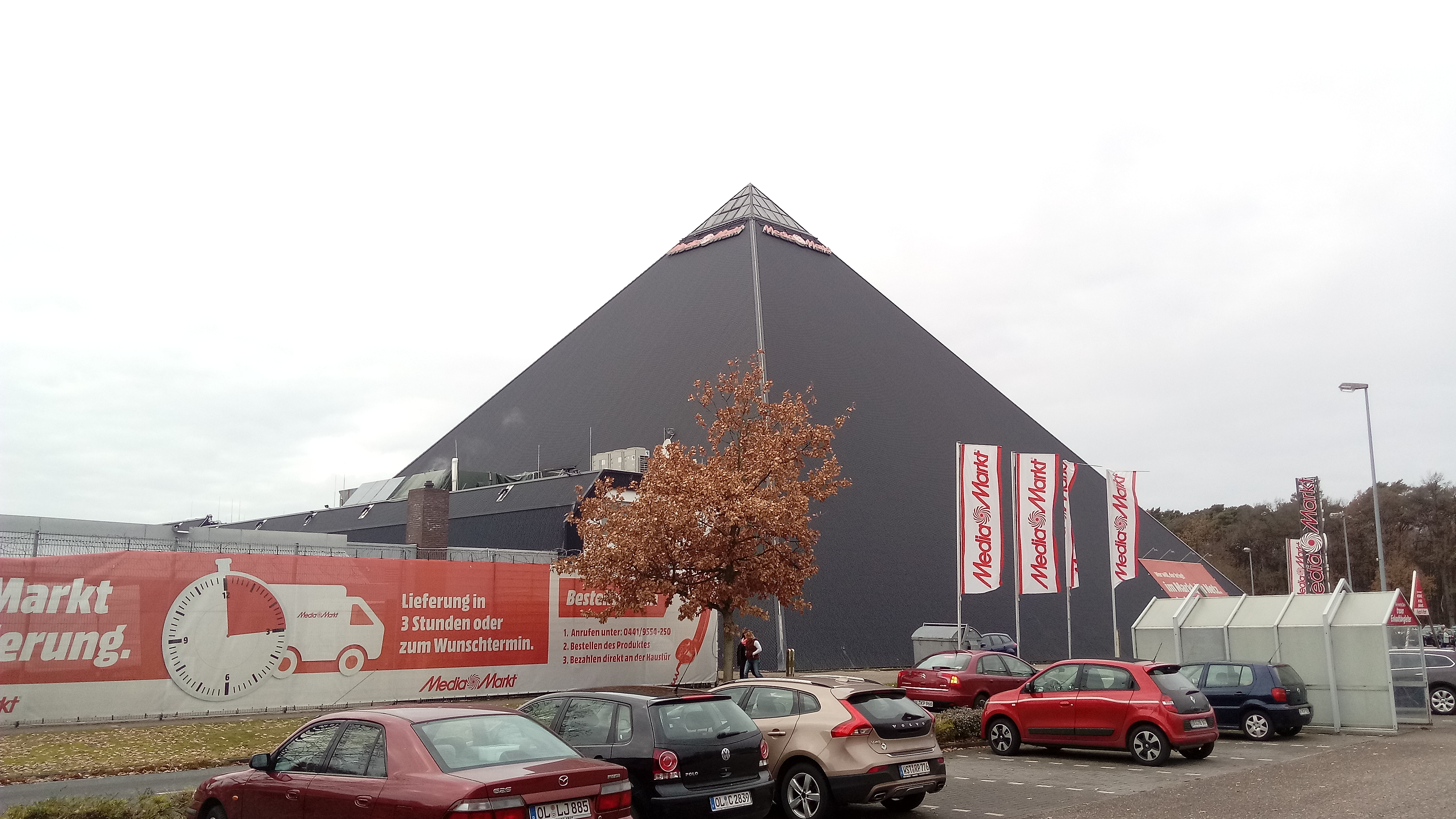 A pyramid-shaped Media Markt electronics shop in the Low-Saxon city of Oldenburg.